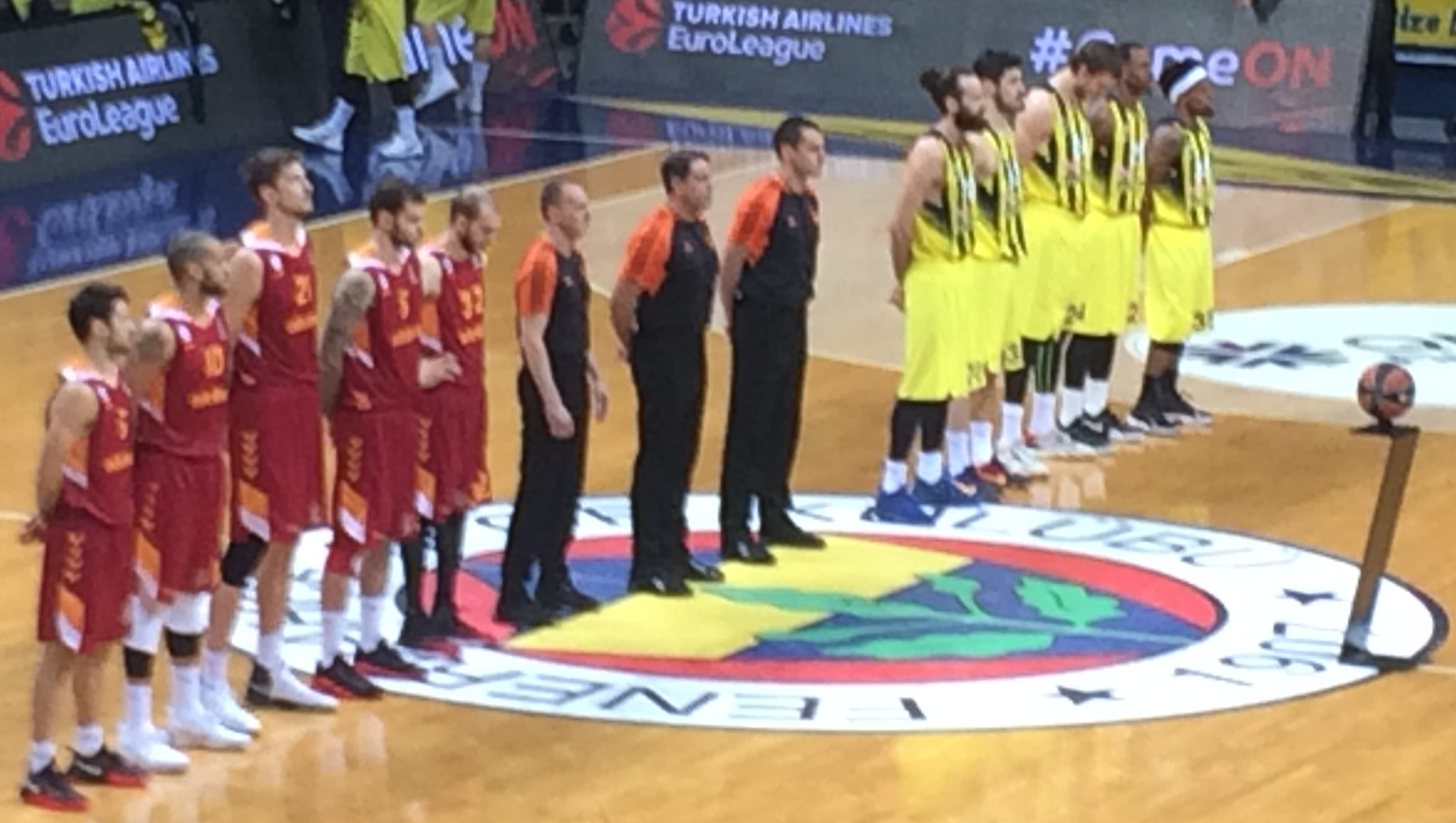 Fenerbahçe Men's Basketball vs Galatasaray Men's Basketball Euroleague 20170126